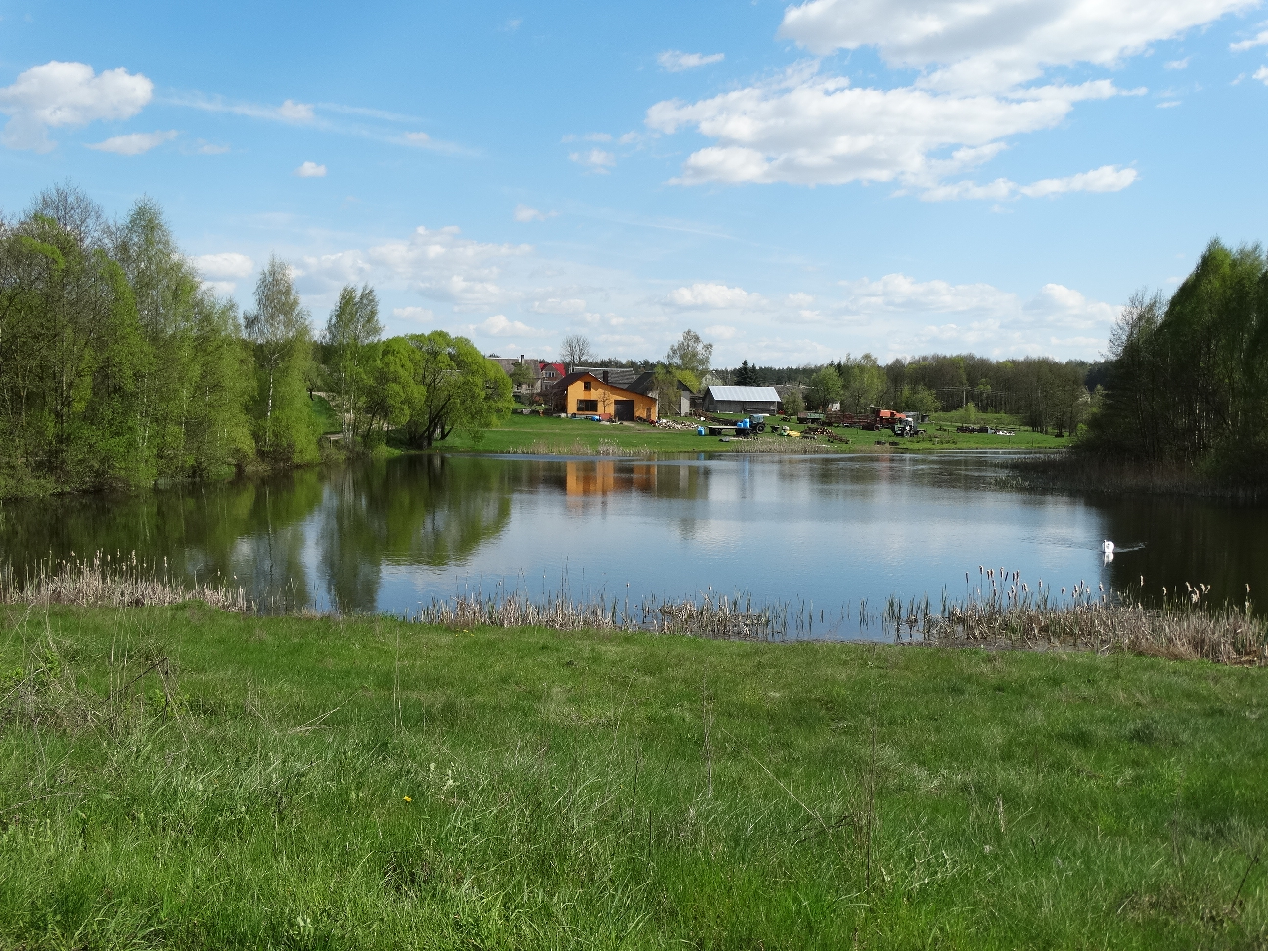 Tetėnai, Šalčininkai District, Lithuania